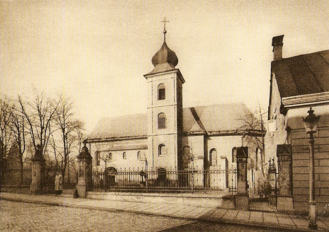 Trinity Church in Bielsko-Biała in 1928 (before rebuildng in 1934)